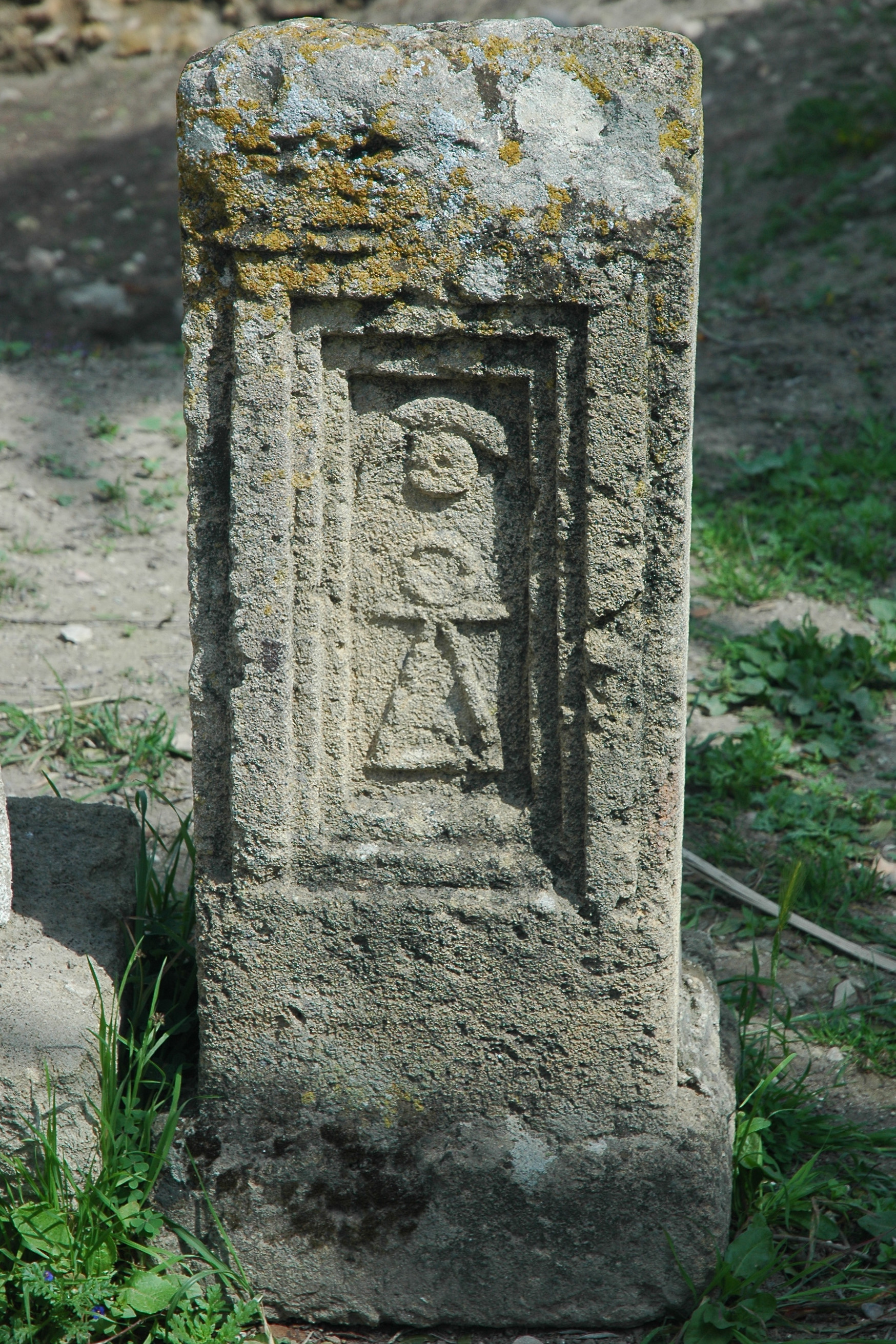 Tophet Salambo Carthage Tunisie